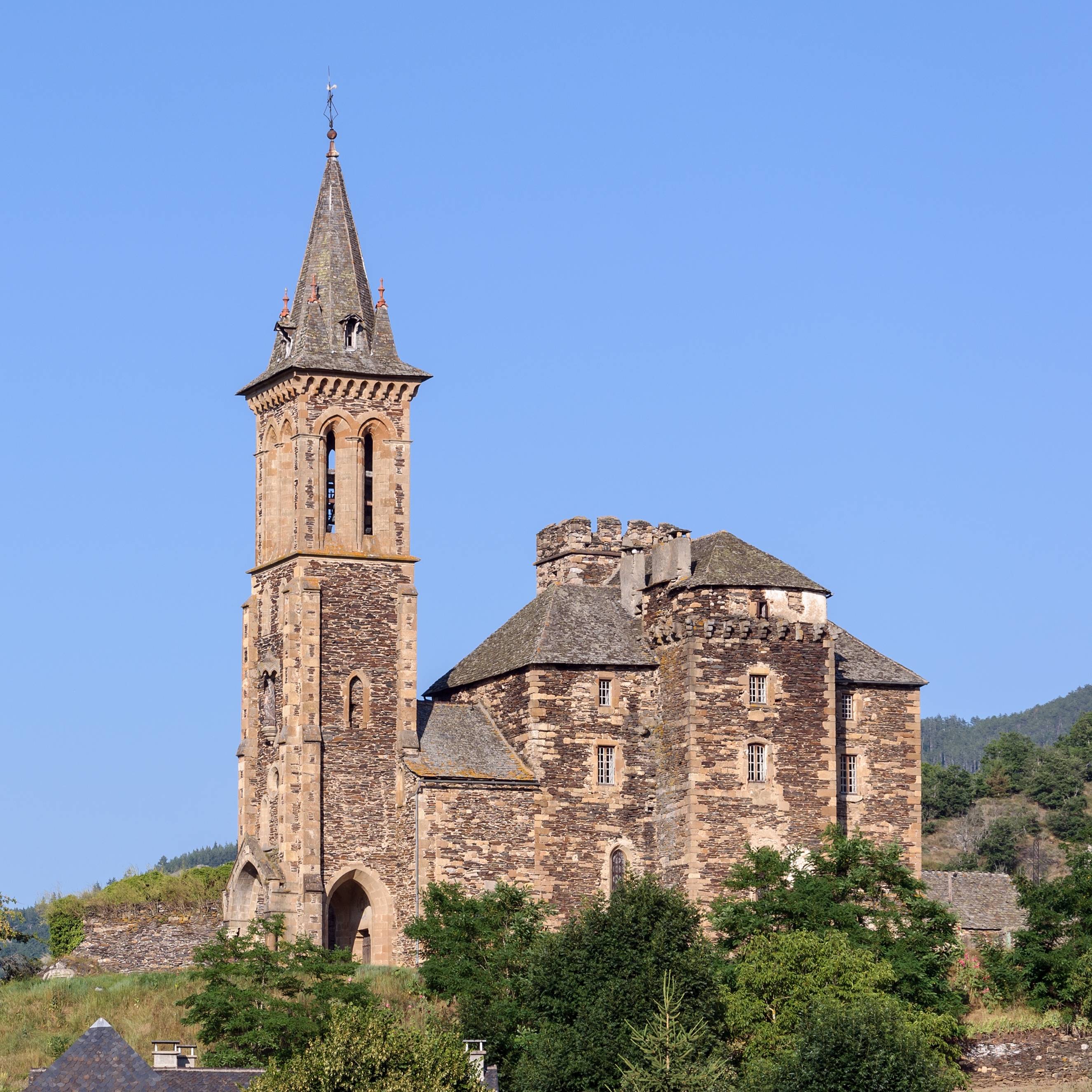 Our Lady of the Assumption church in Bédouès, Lozère, France